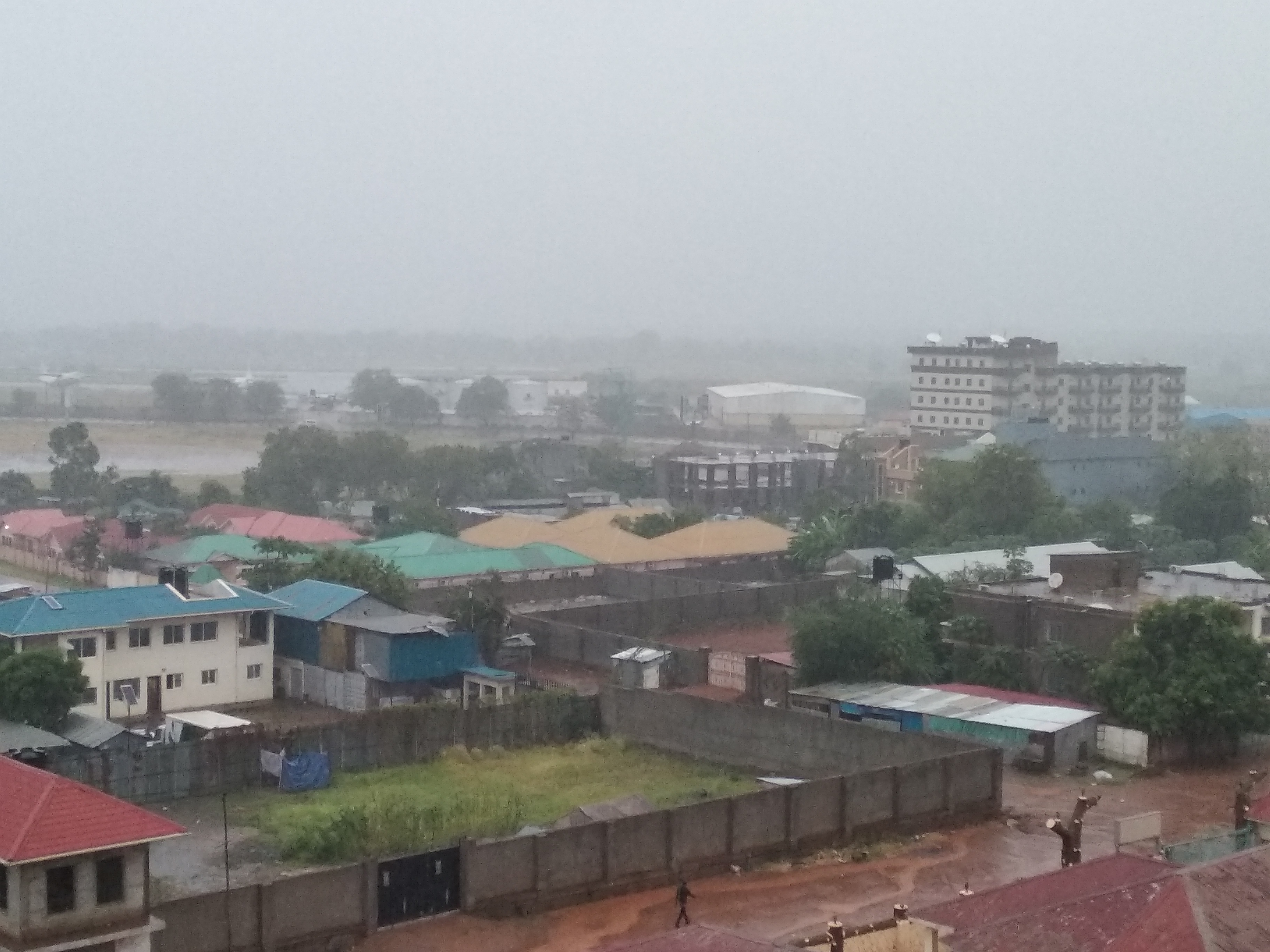 VIEW OF JUBA, SOUTH SUDAN AFTER PEACE DECEMBER 2018 This is an image with the theme "Play" from: South Sudan